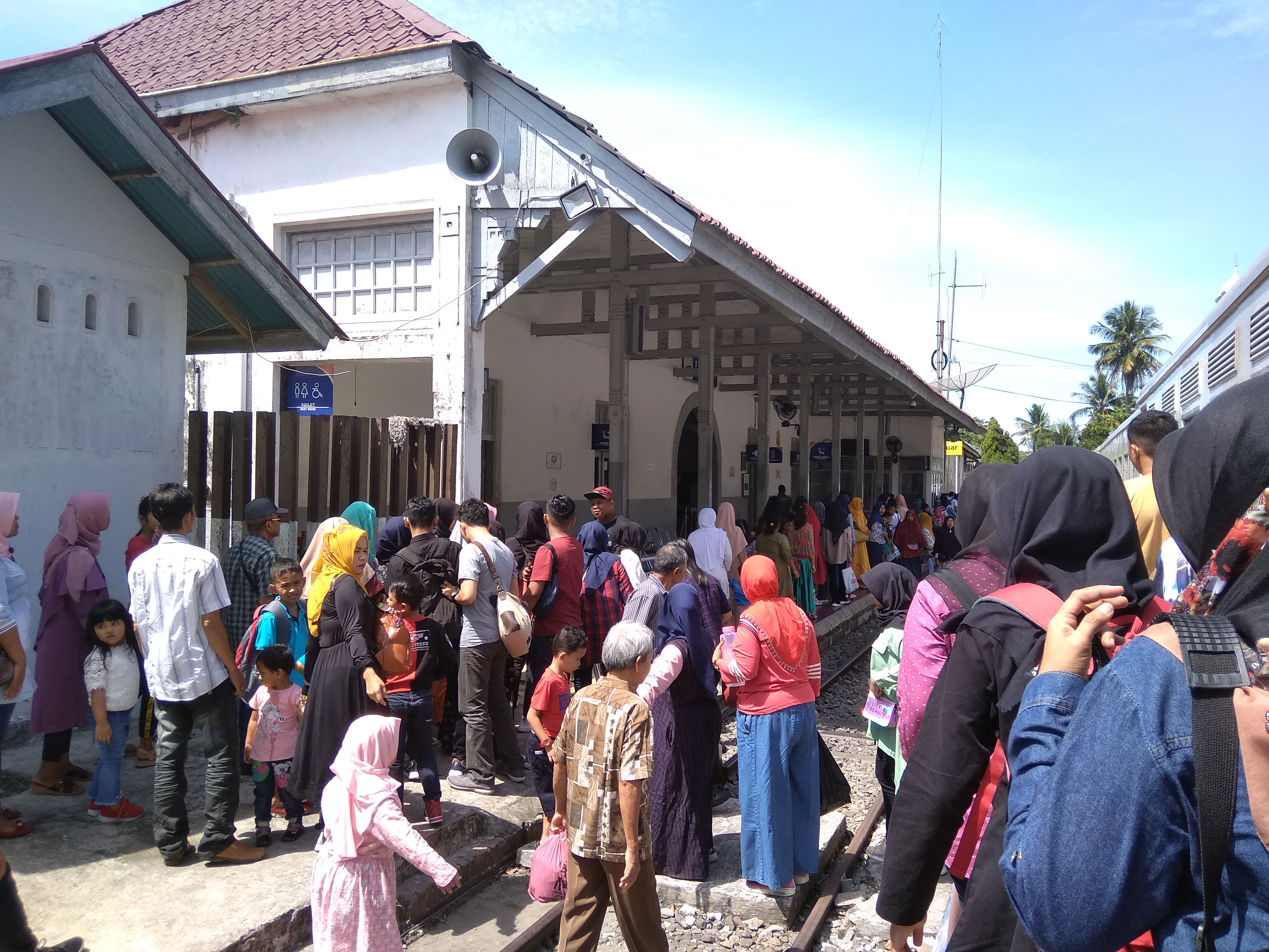 Sibinuang Railway passenger on the Padang-Pariaman Line descends at Pariaman Station, West Sumatra, Indonesia.